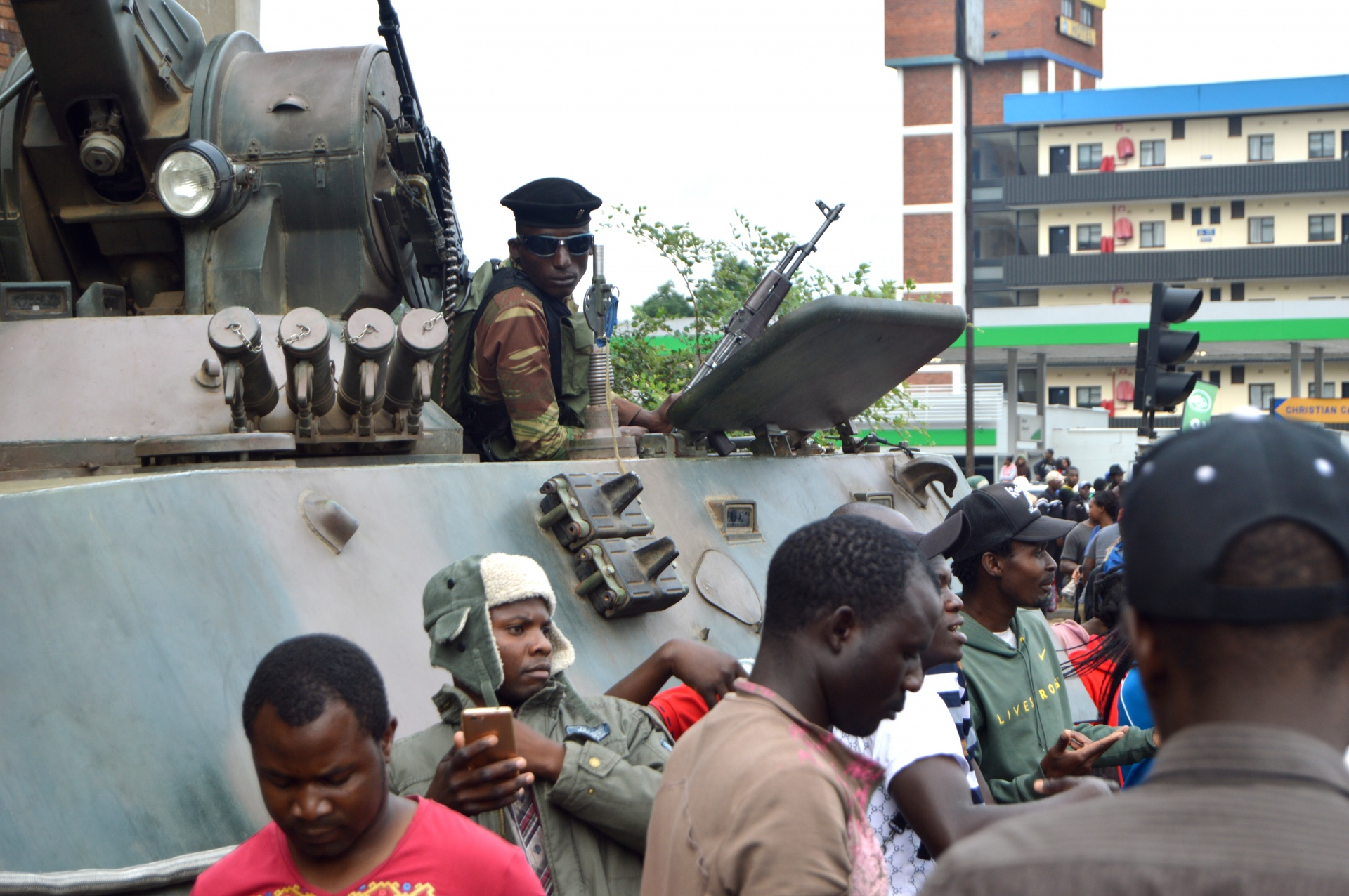 A tank in downtown Harare during the coup in Zimbabwe, 2017